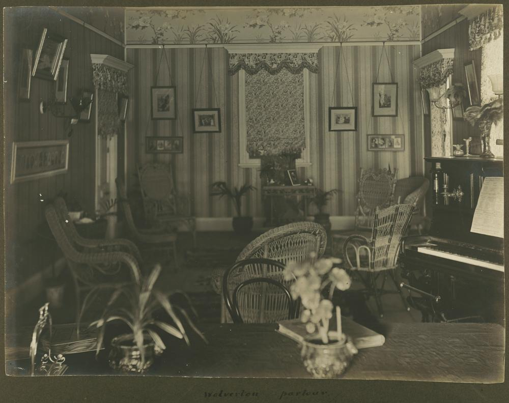 Parlour at Wolverton, Townsville residence of the Tunbridge family, ca. 1895. The walls of the living room are papered in striped wallpaper with a constrasting paper of oriental influenced floral design above the picture rail. Seating in the room is two styles of cane armchair and occasional tables arranged against the walls. Framed family photographs are hung from the wall from the picture rail. An upright piano and a piano stool is at the right of the photograph. The windows are hung with fabric blinds and a valance.